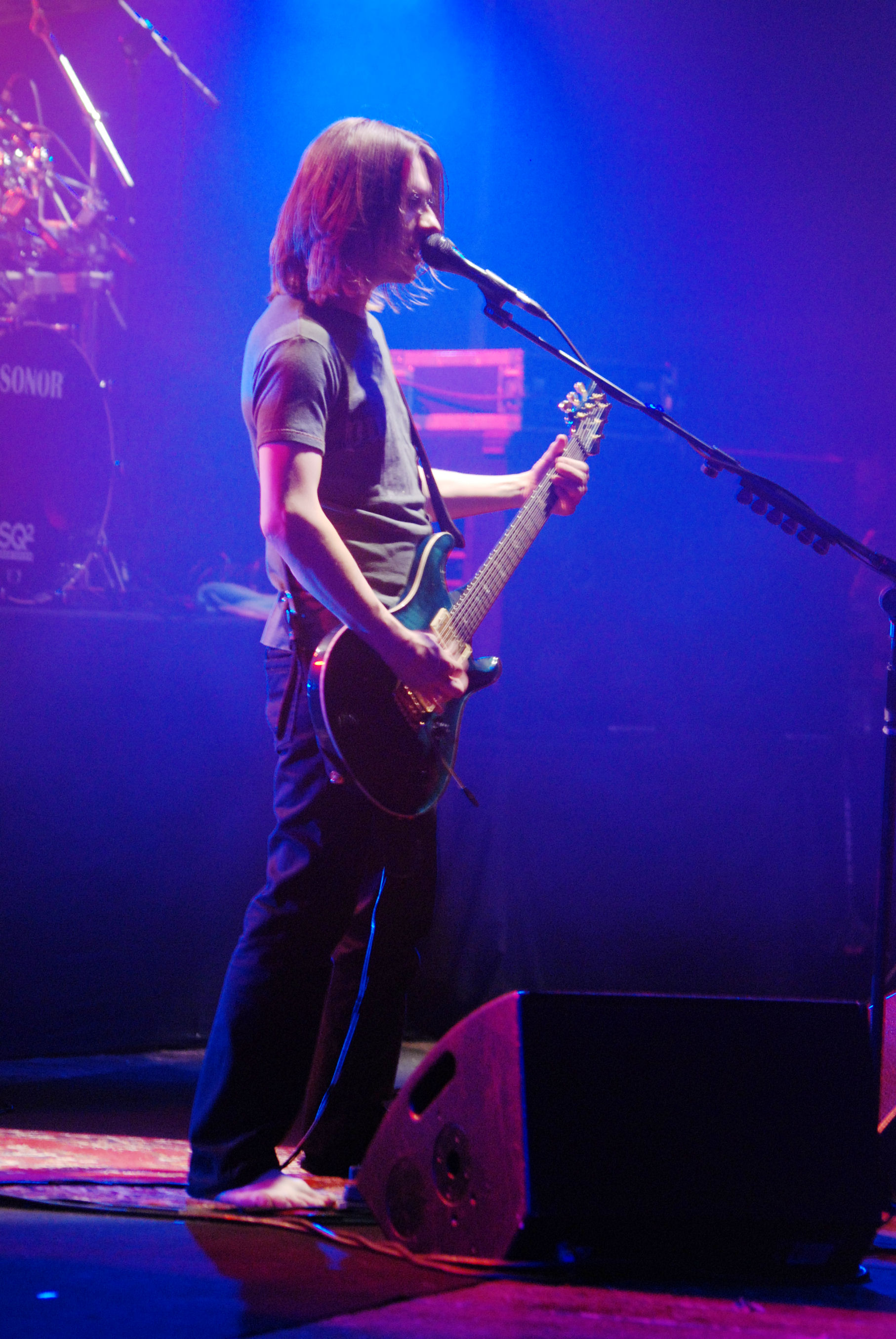 STEVEN_WILSON from Porcupine Tree during concert in TS Wisła in Kraków To zdjęcie powstało dzięki współpracy z Rock-Servis